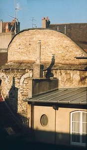 Tour gallo romaine dijon castrum